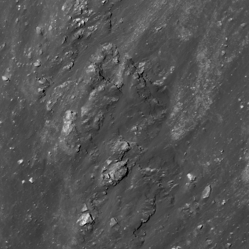 Bedrock benches are visible near the top of an avalanche on the central peak of Langrenus crater (8.79°S, 61.22°W). LROC NAC M139504224L, downslope is to the lower left, image width is ~550 m [NASA/GSFC/Arizona State University].